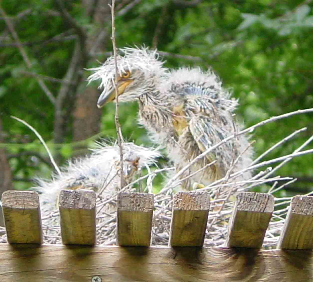 Image of baby Yellow Crowned Night Heron